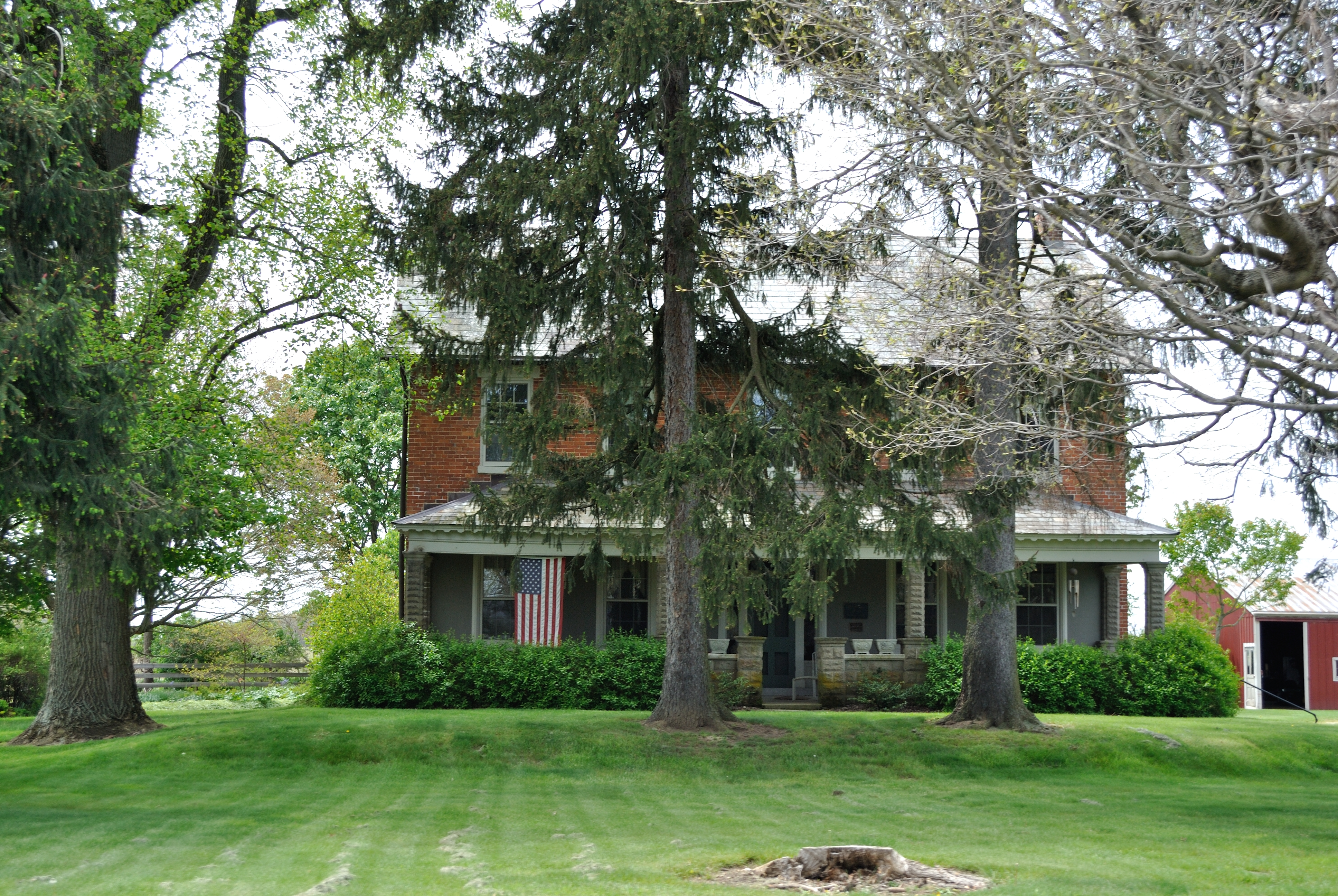 The John Detwiller Tavern and Farmstead located near Delaware, Ohio. Listed on the NRHP